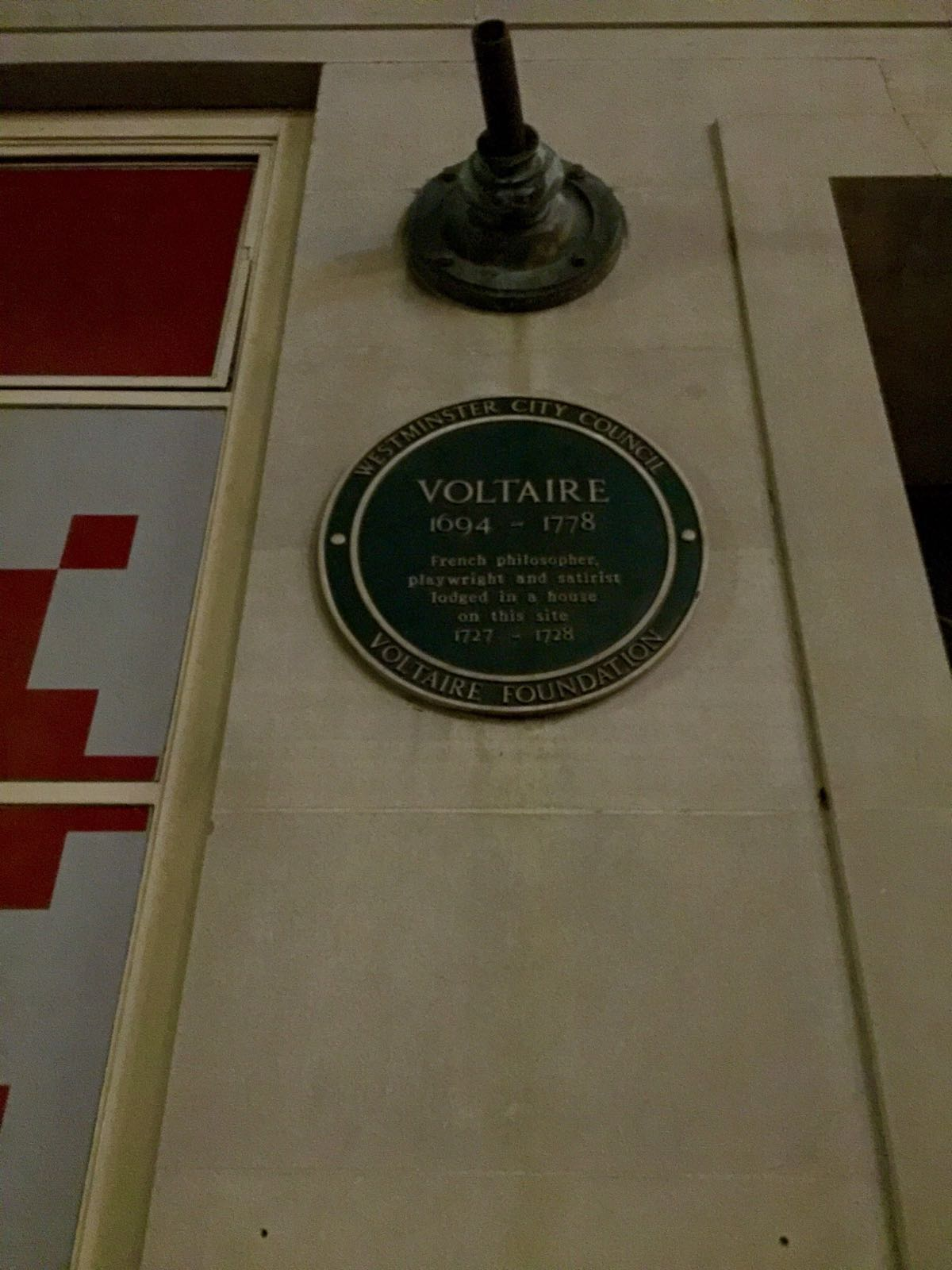 Where Voltaire stayed during his excile in London